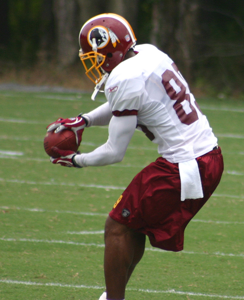 A picture of Washington Redskins WR Santana Moss at training camp